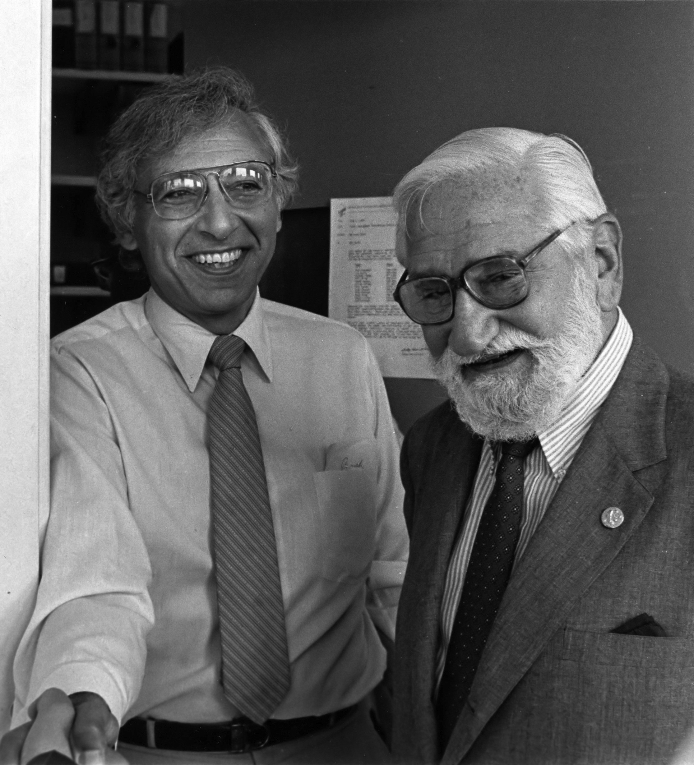 Title: Historical: People: Gallo, Robert C. and Sabin, Albert B. Description: On the left: Robert C. Gallo, M.D., former Biomedical Researcher at the National Institutes of Health. He is best known for his work with the Human Immunodeficiency Virus (HIV), the infectious agent responsible for the Acquired Immune Deficiency Syndrome (AIDS). On the right: Albert B. Sabin, M.D., discoverer of the penicillin vaccine. In 1961, the United States Public Health Service endorsed his "live" polio-virus vaccine. Prepared with cultures of attenuated polio viruses, it could be taken orally to prevent contraction of the disease. It was this vaccine that effectively eliminated polio from the United States. Subjects (names): Gallo, Robert C. Sabin, Albert, B. Topics/Categories: Historical -- People Type: B&W Source: National Cancer Institute (NCI) Author: Unknown Date Created: August 1985 Date Added: 12/15/2009 Reuse Restrictions: None - This image is in the public domain and can be freely reused. Please credit the source and/or author listed above.